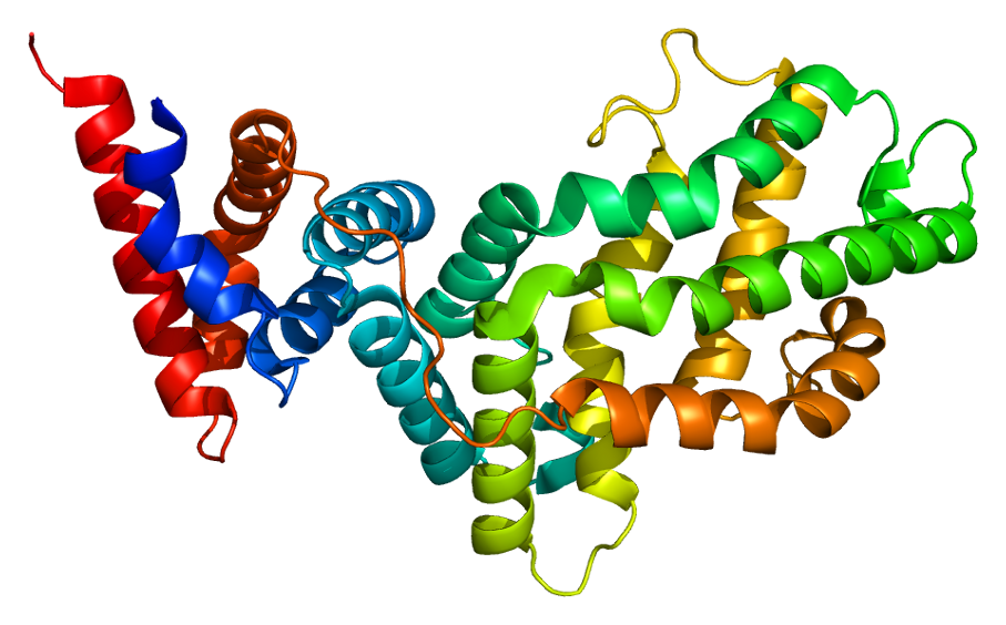 Structure of the RASA1 protein. Based on PyMOL rendering of PDB 1wer.